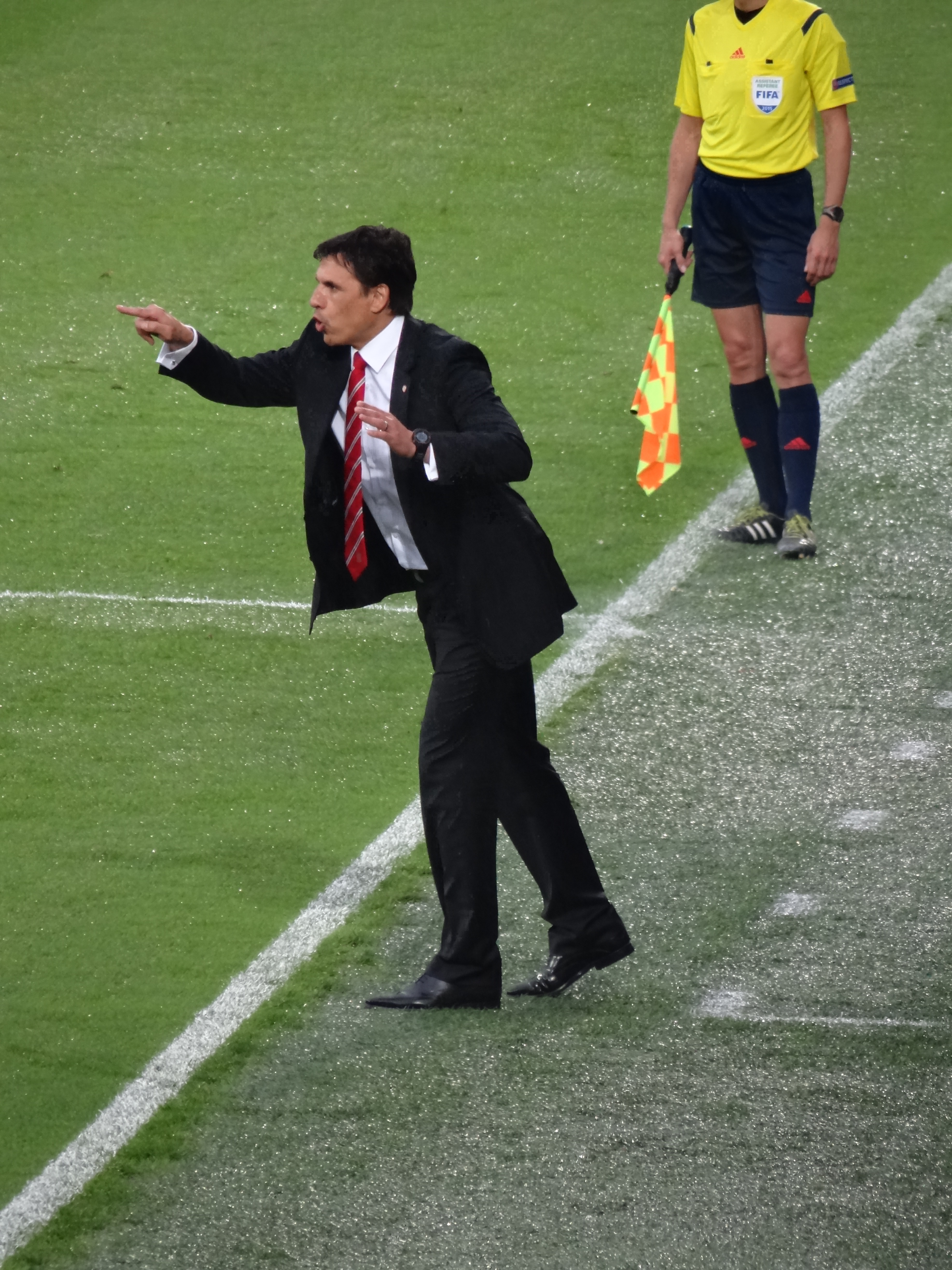 Chris Coleman as a coach of Wales in 2015